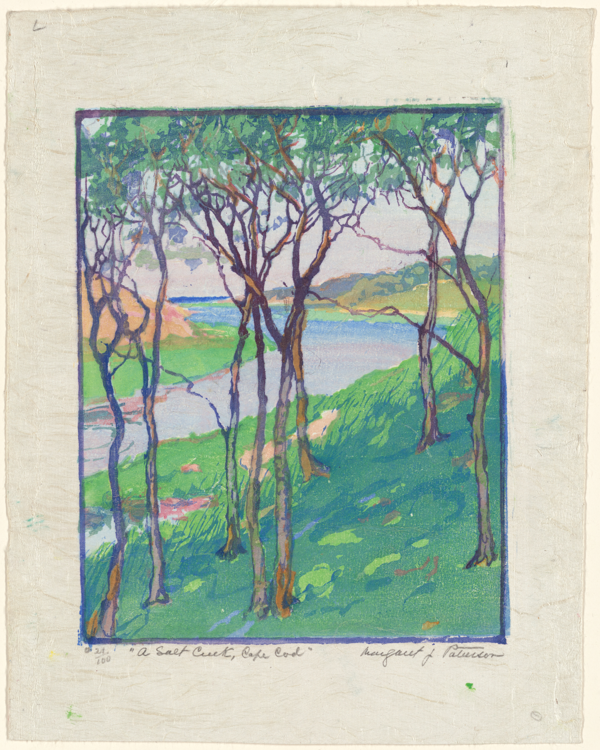 "A Salt Creek, Cape Cod" by Margaret Jordan Patterson. New York Public Library Digital Collections. The Miriam and Ira D. Wallach Division of Art, Prints and Photographs: Print Collection, The New York Public Library.